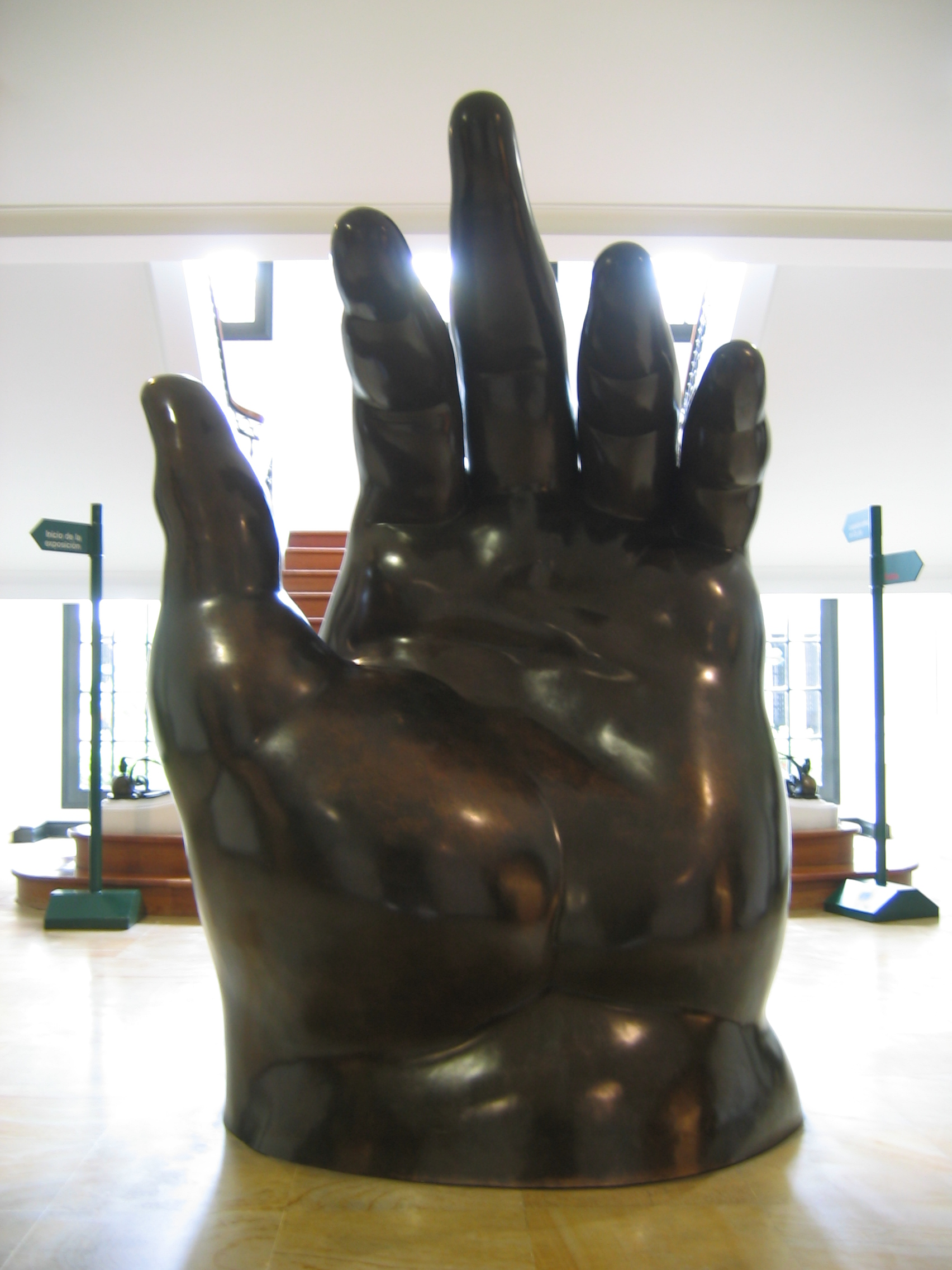 Artpiece "hand" from Botero, Colombia